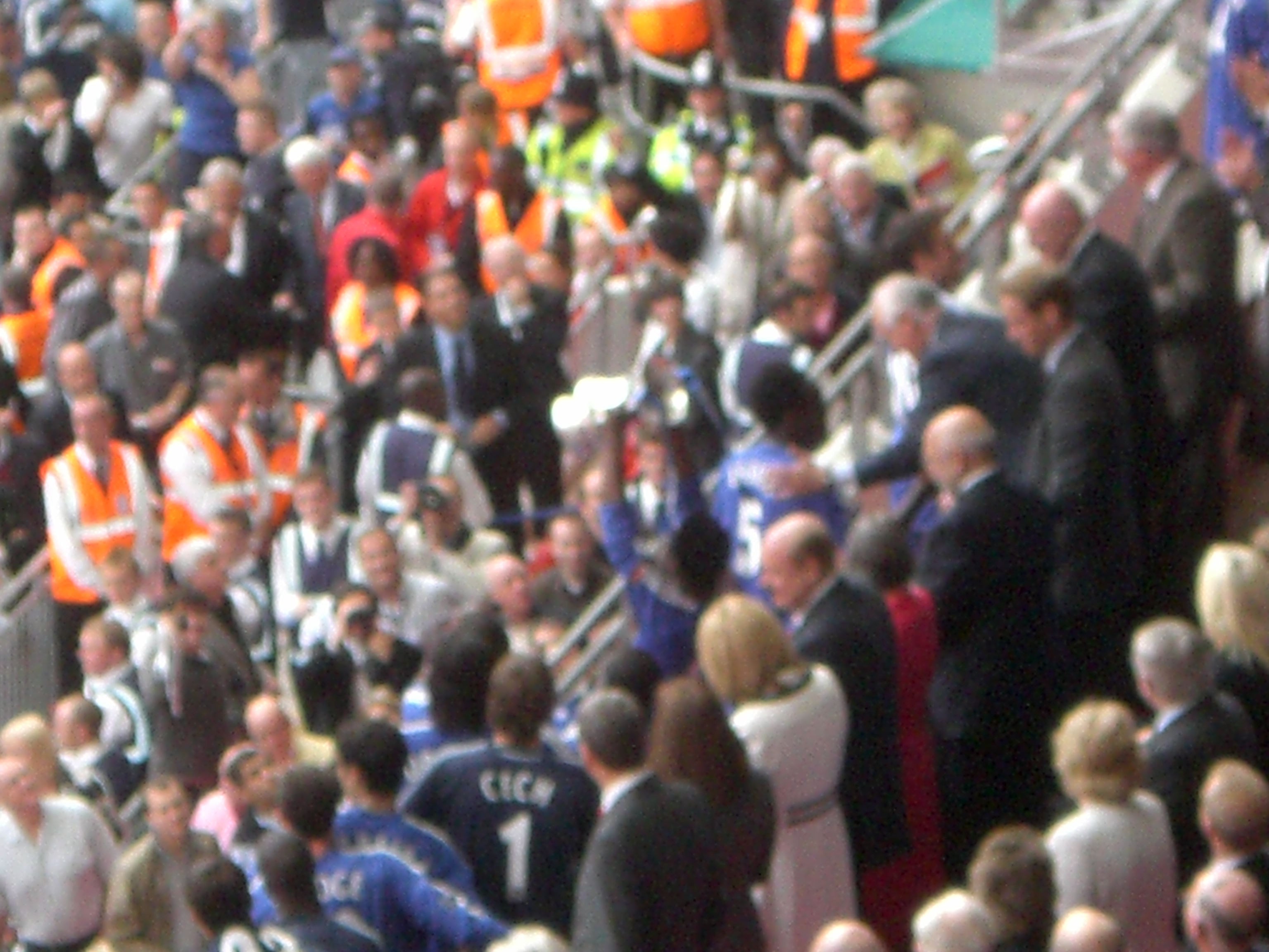 FA-cup final at New Wembley: Chelsea vs Man. United 0-1 a.e.t. Chelsea gets their trophy from Prince William